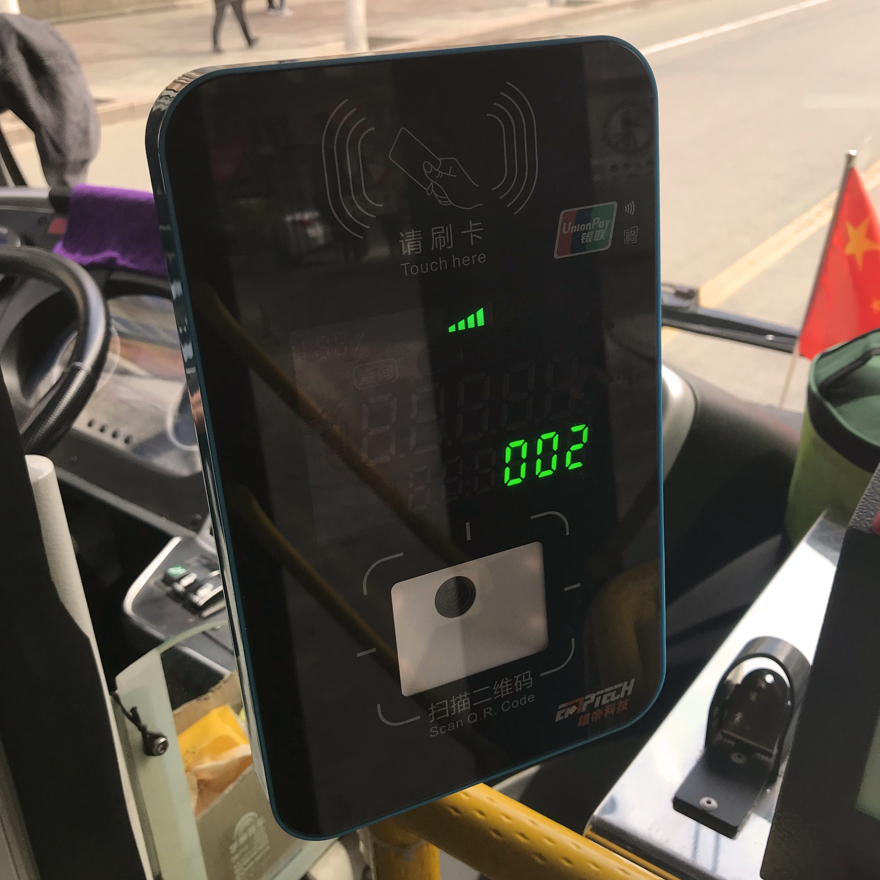 A card and QRcode reader on the bus, which support UnionPay QuickPass and UnionPay QRcode. 中文（中国大陆）: 一个支持银联闪付和银联云闪付二维码的公交车读卡器。